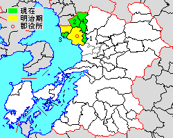 The location of Tamana_District in Kumamoto Prefectuur, Japan